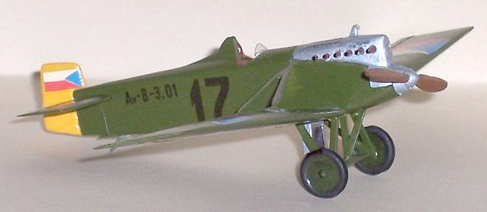 Avia BH-3 Aircraft manufacturers of Czechoslovakia 1/72 scale model built and photographed by Robert E. Myers